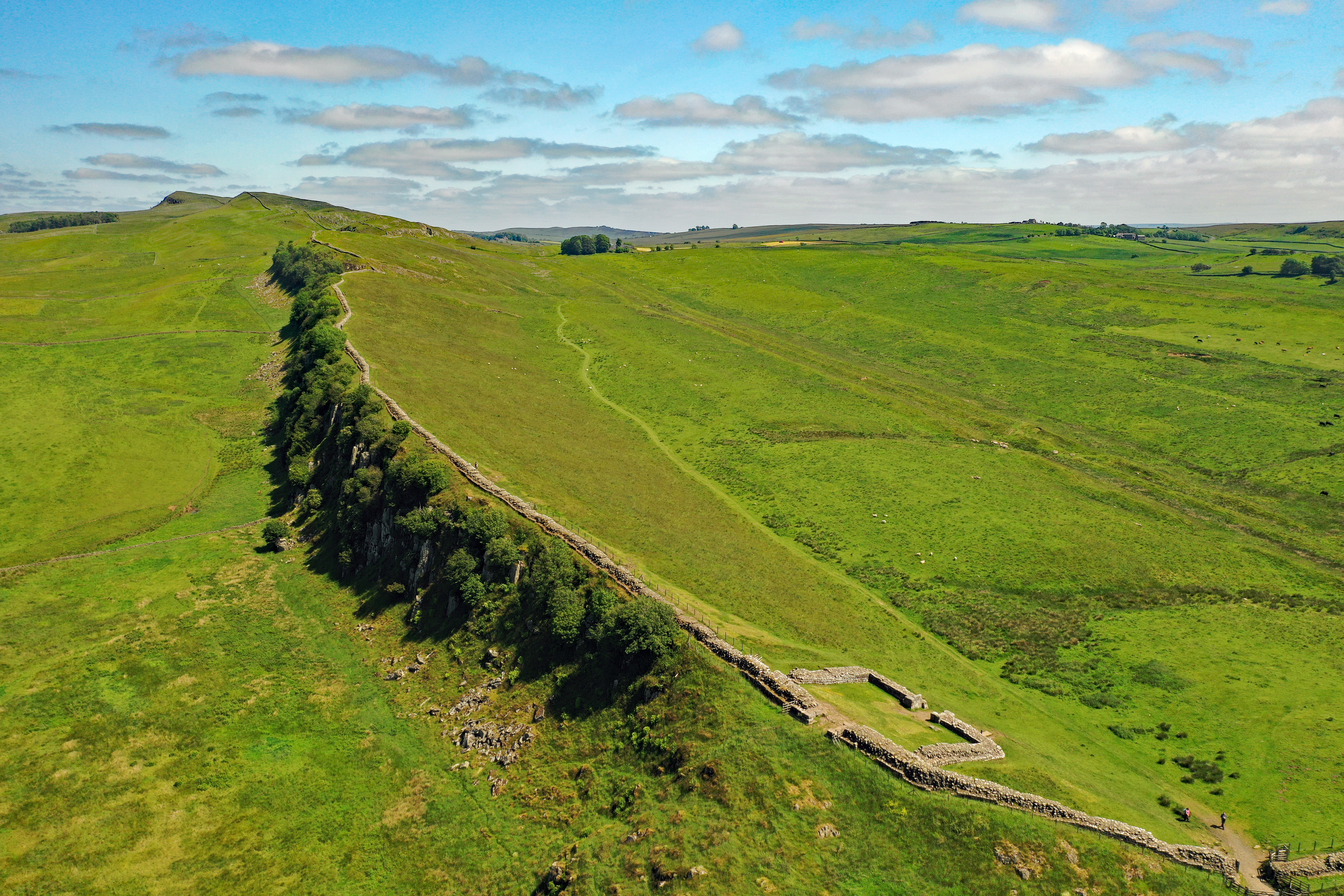 Hadrian's Wall and Milecastle 42 (Northumberland, England, UK)